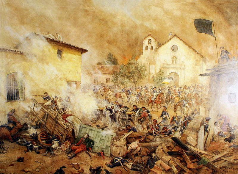 Painting depicting the Battle of Rancagua, October 1st/2nd 1814.